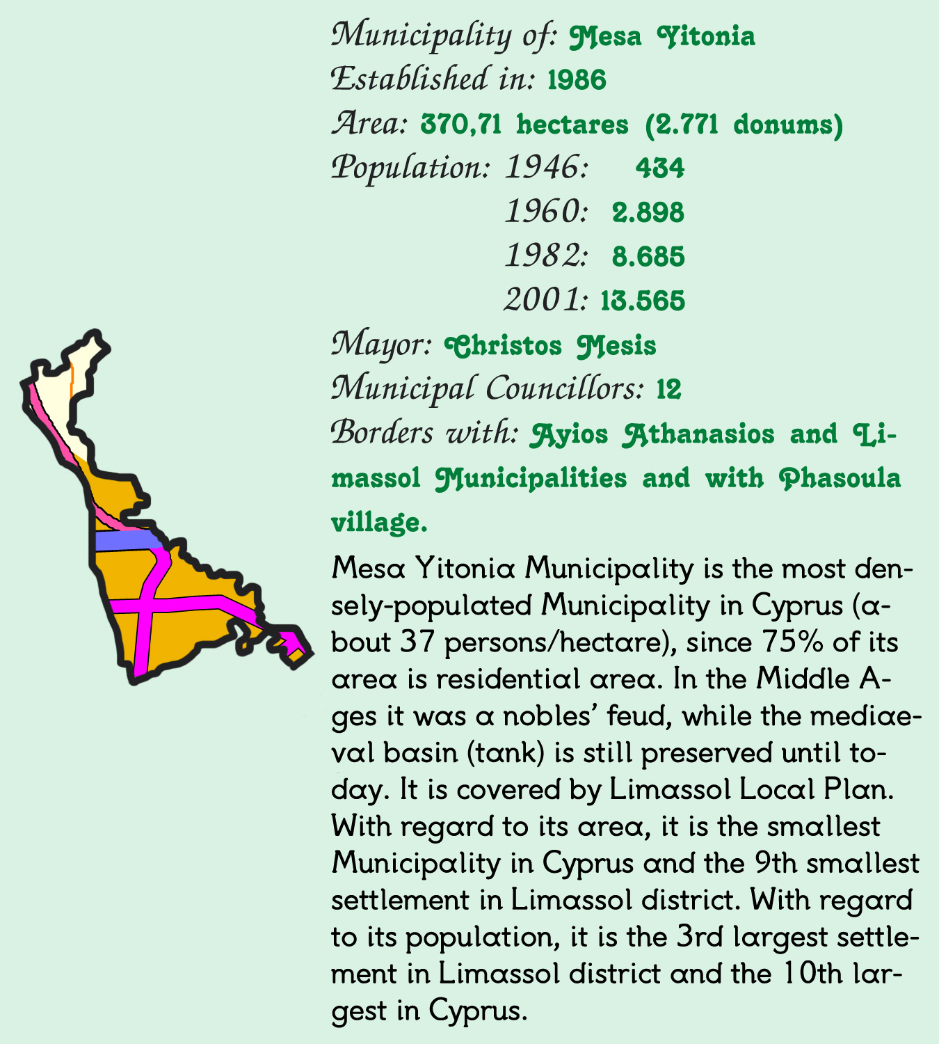 Concise presentation of Mesa Yitonia